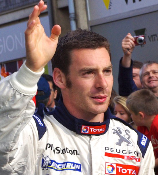 Simon Pagenaud at the Le Mans 24 Hours 2011 Drivers' Parade